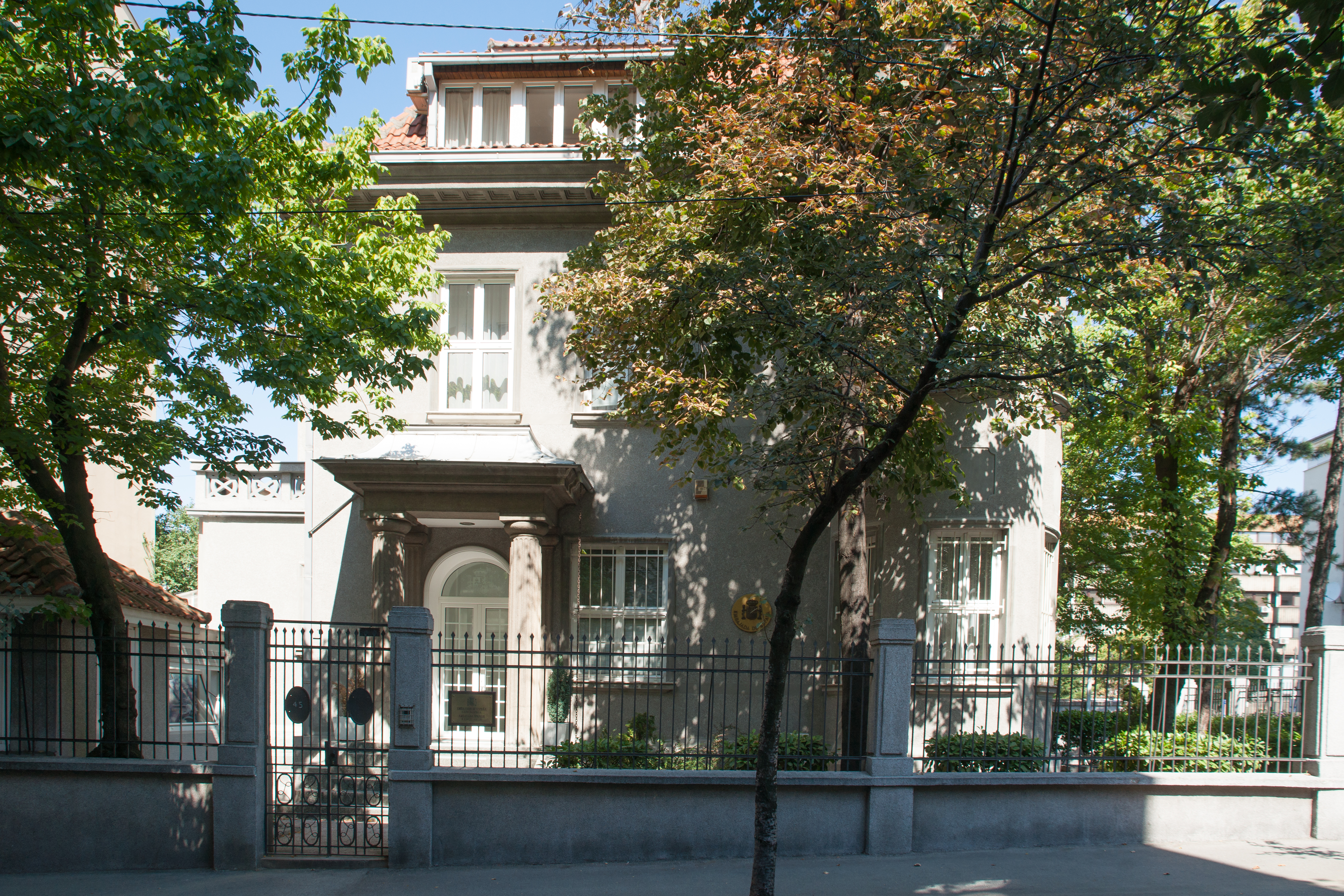 Spain embassy in Belgrade.